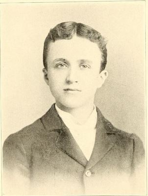 William Judson Morgan